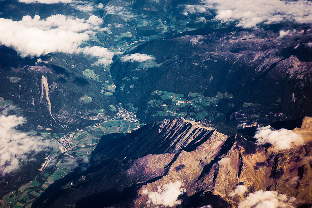 Sand in Taufers in South Tyrol.